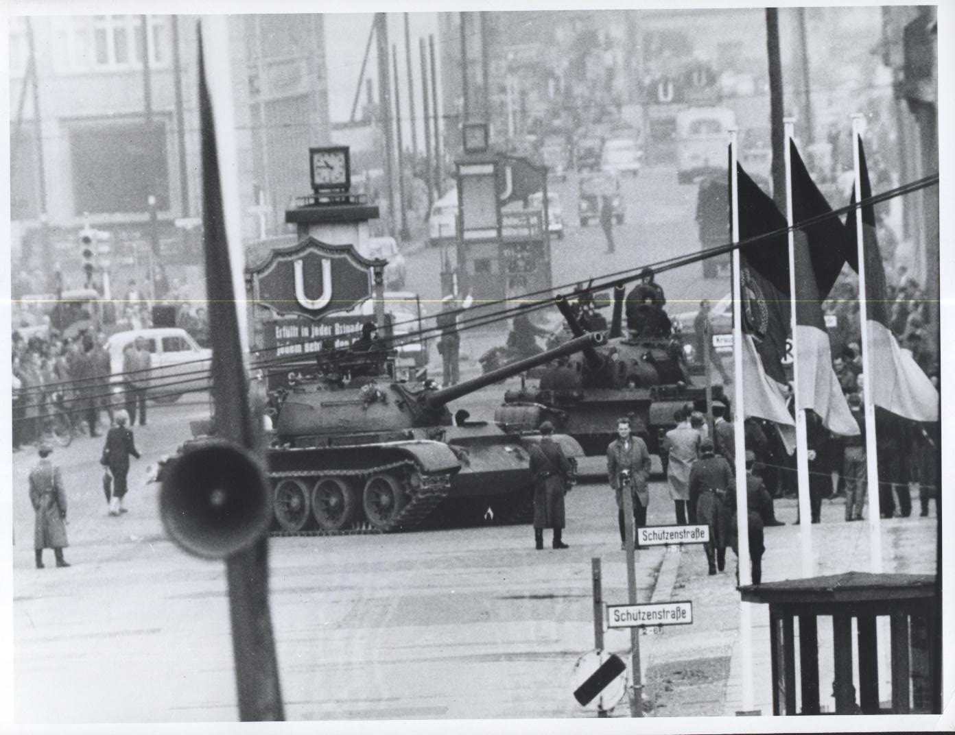 Oct. 28, 1961. Soviet tanks move out after a show of strength as the standoff at Checkpoint Charlie comes to an end. From the booklet "A City Torn Apart: Building of the Berlin Wall." For more information, visit CIA's Historical Collections webpage (